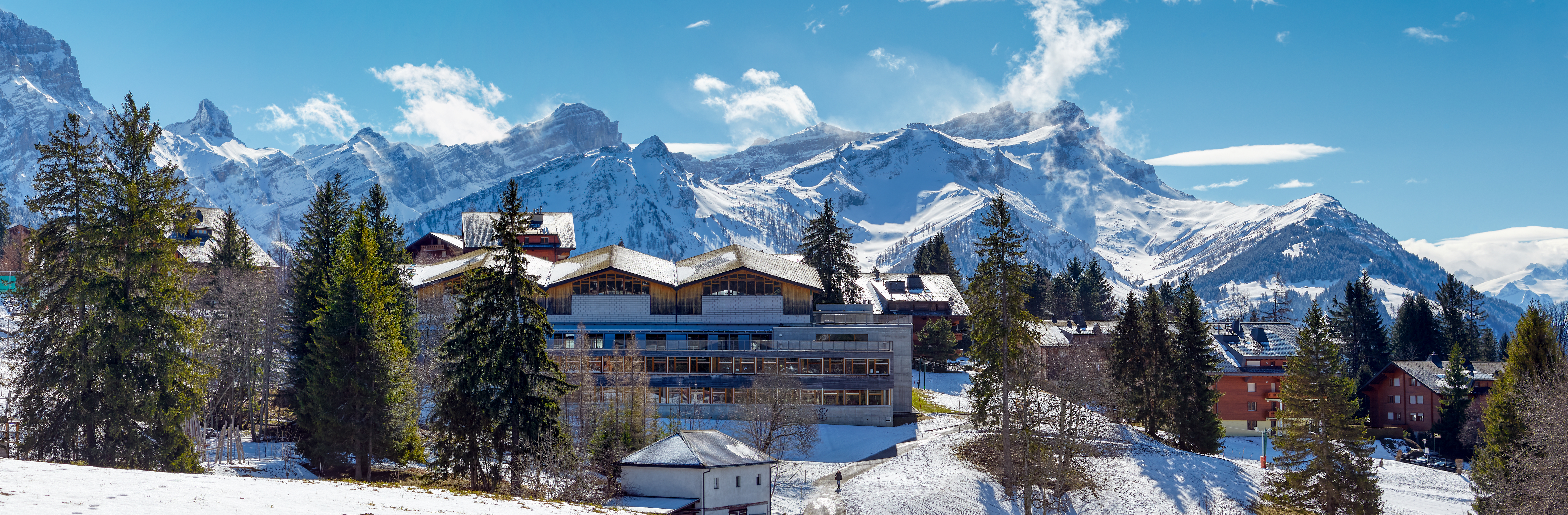 Villars-sur-Ollon (Switzerland) Primary School With Mountain Panorama. The school features a back-to-back sports center as well as skiing and sledging slopes.